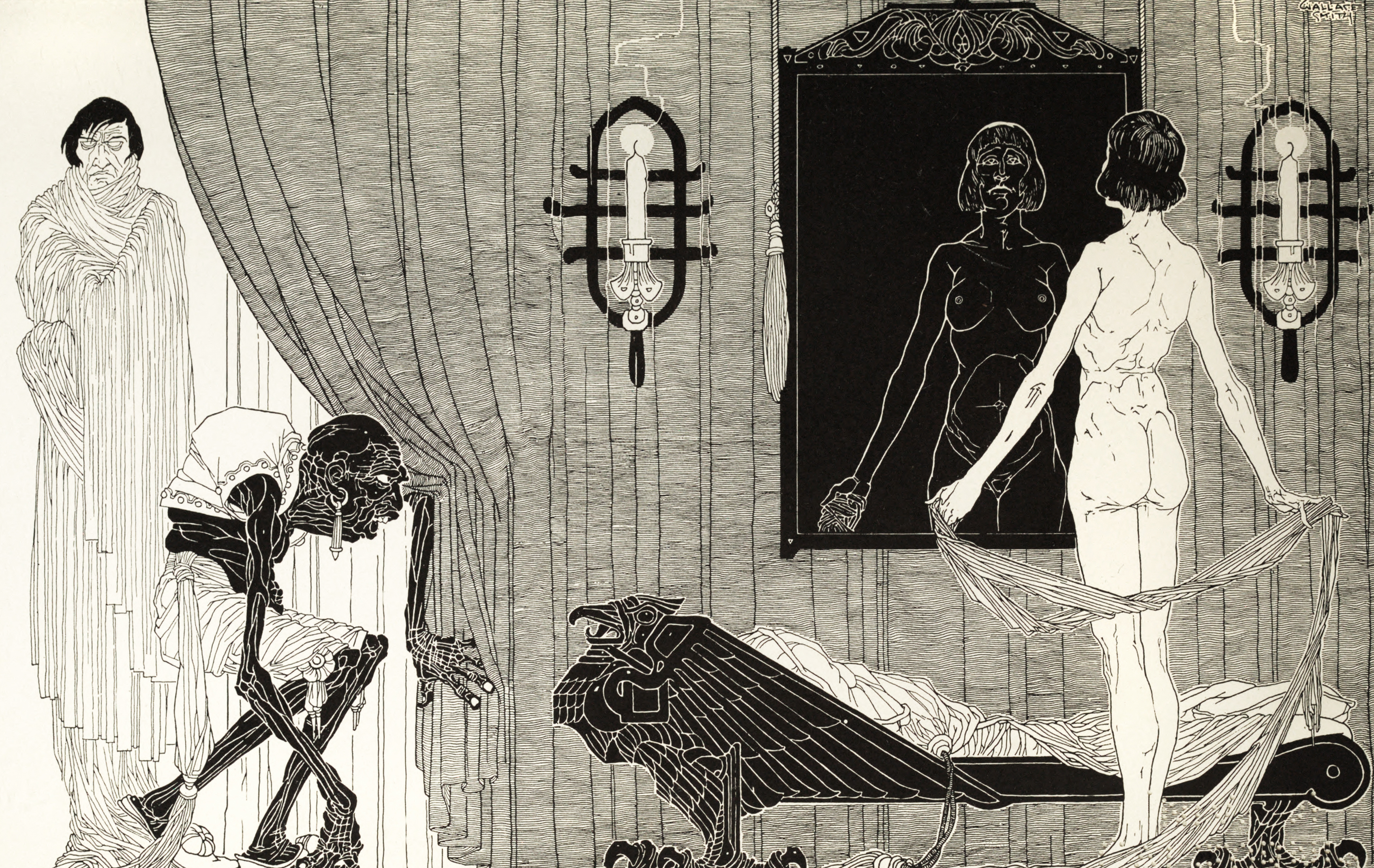 Fantazius Mallare illustration